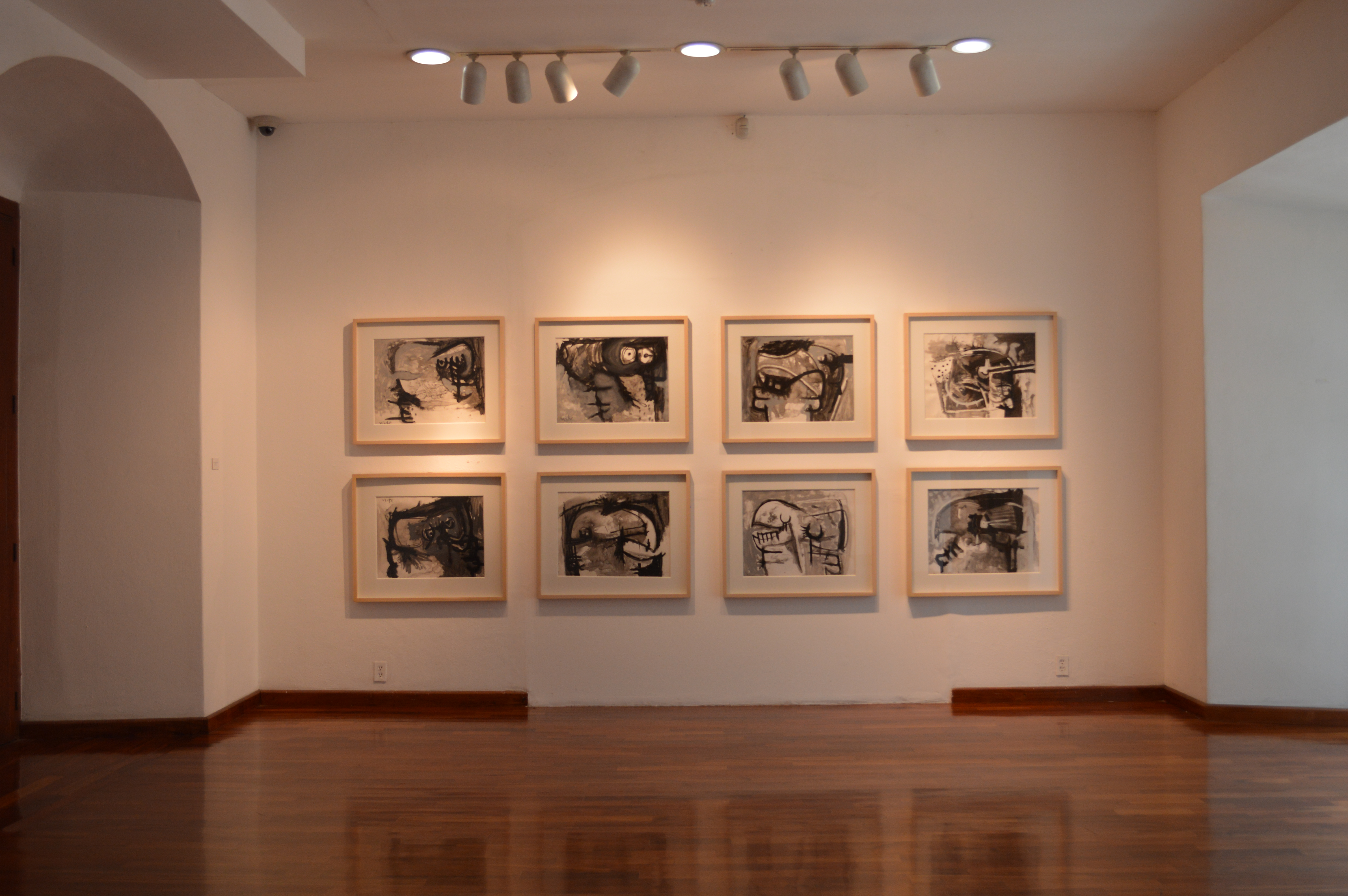 Exhibition of Zoologica Mental by Rodolfo Nieto at the Museo de los Pintores Oaxaqueños in the city of Oaxaca, Mexico